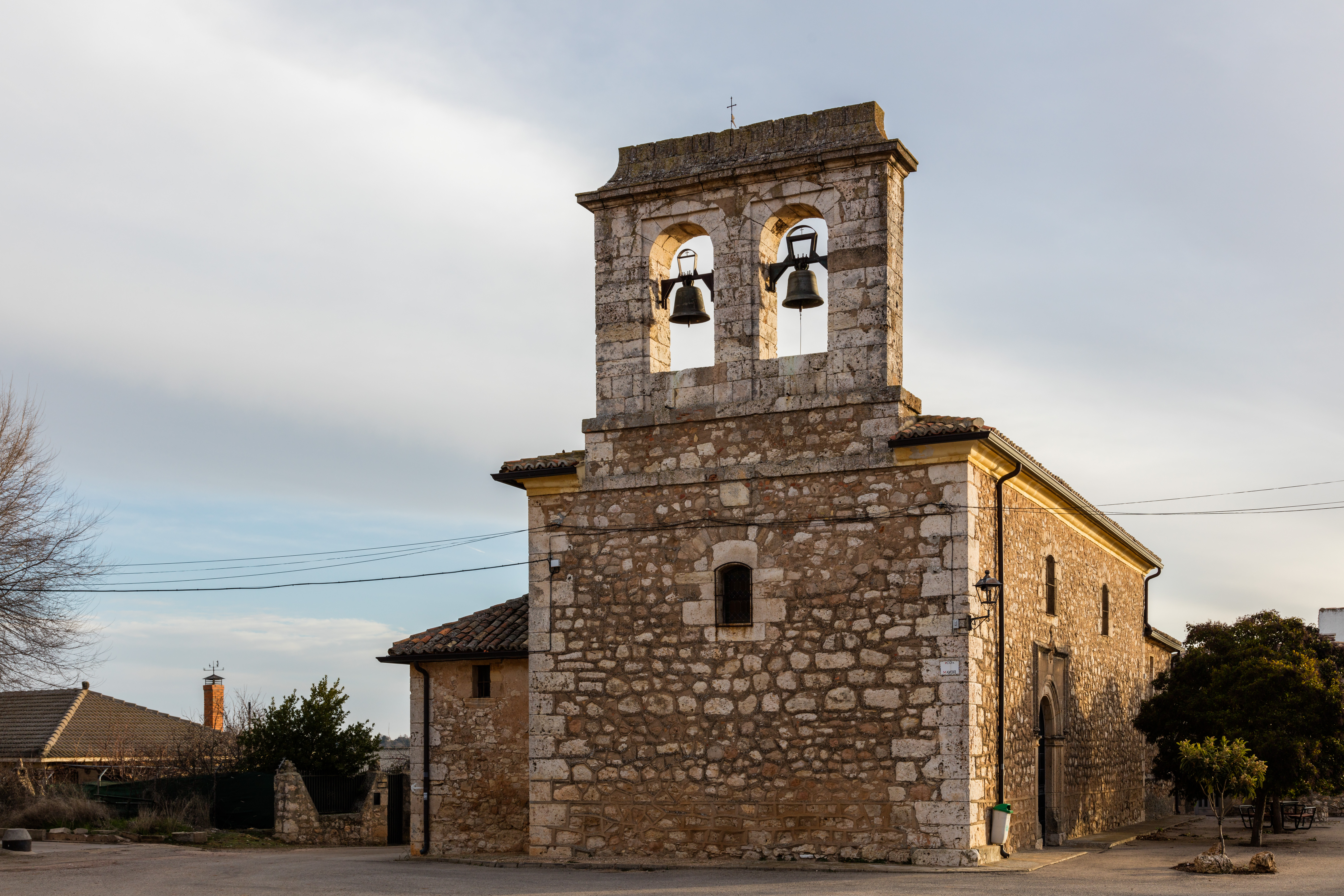 Church of the Assumption, Alaminos, Guadalajara, Spain